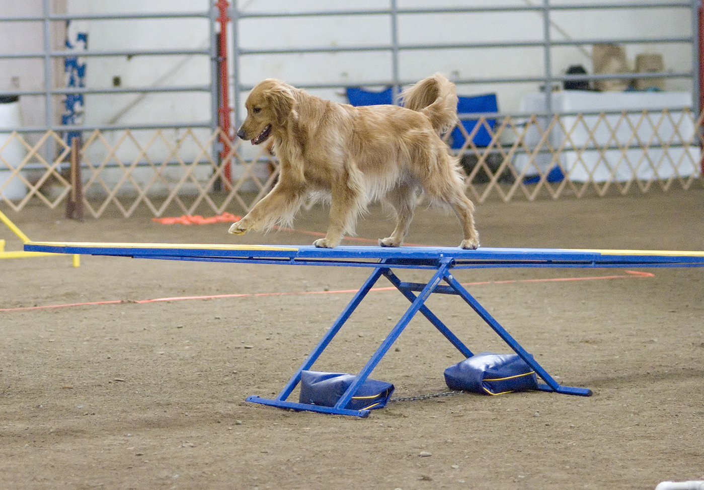 A Golden Retriever going over a teeter-totter at an agility competition. Edited (cropped) by Pharaoh Hound